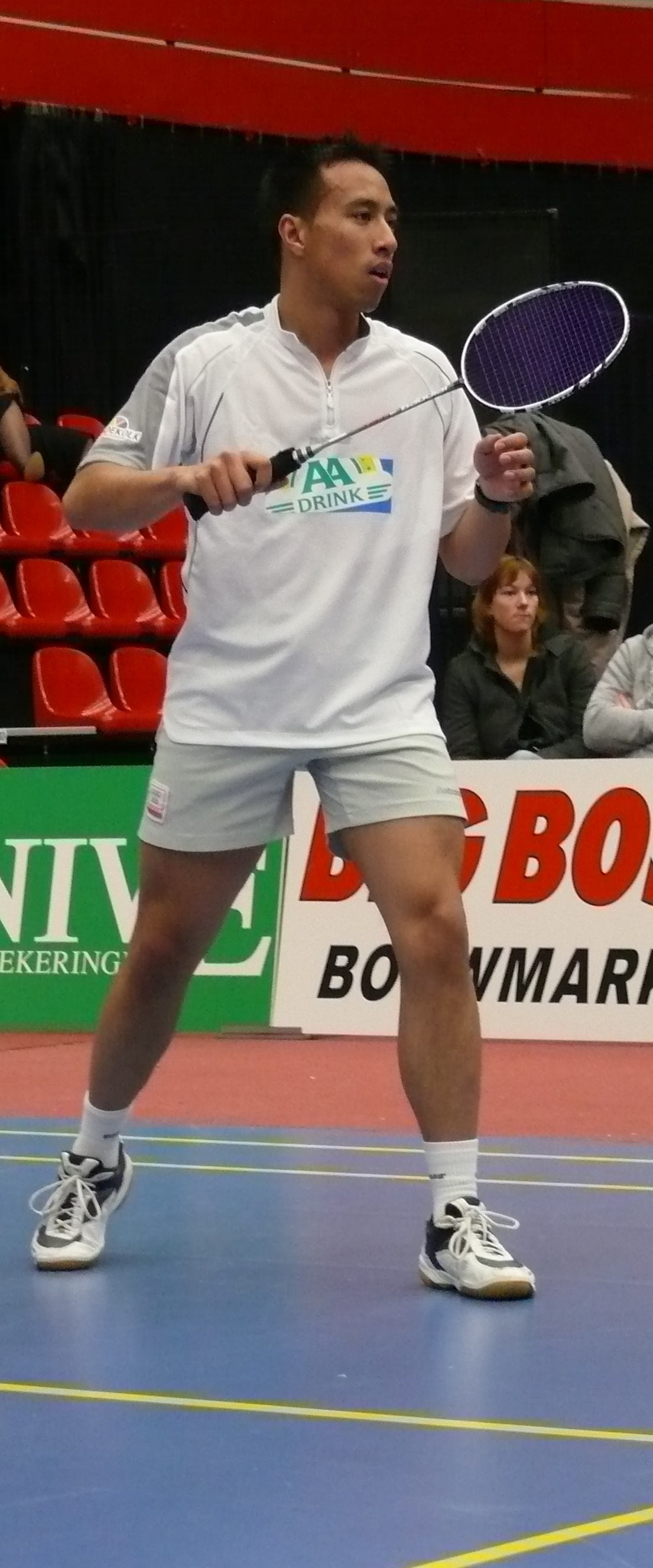 Dicky Palyama (the Netherlands)